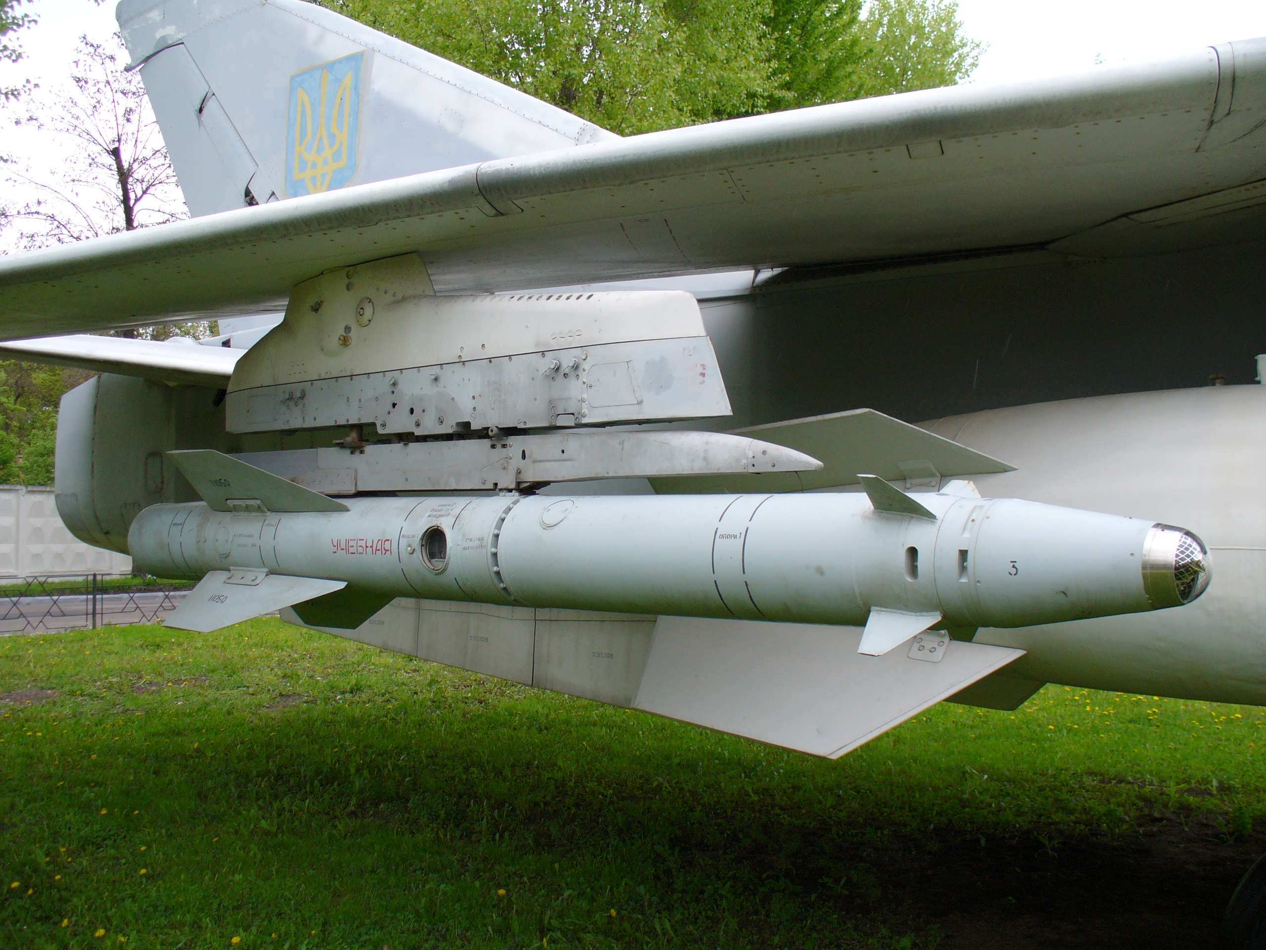 The Kh-25ML (AS-10 "Kerry"), was Soviet short-range air-to-ground missile with semi-active laser guidance on a Su-24 aircraft. Ukrainian Air Force Museum in Vinnitsa.